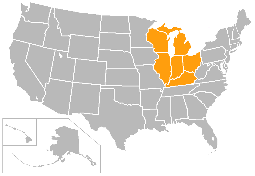 Reach of the Horizon League as of July, 2015.